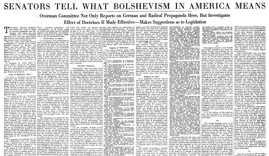 An article clipping of the New York Times publishing of the Overman Committee report.